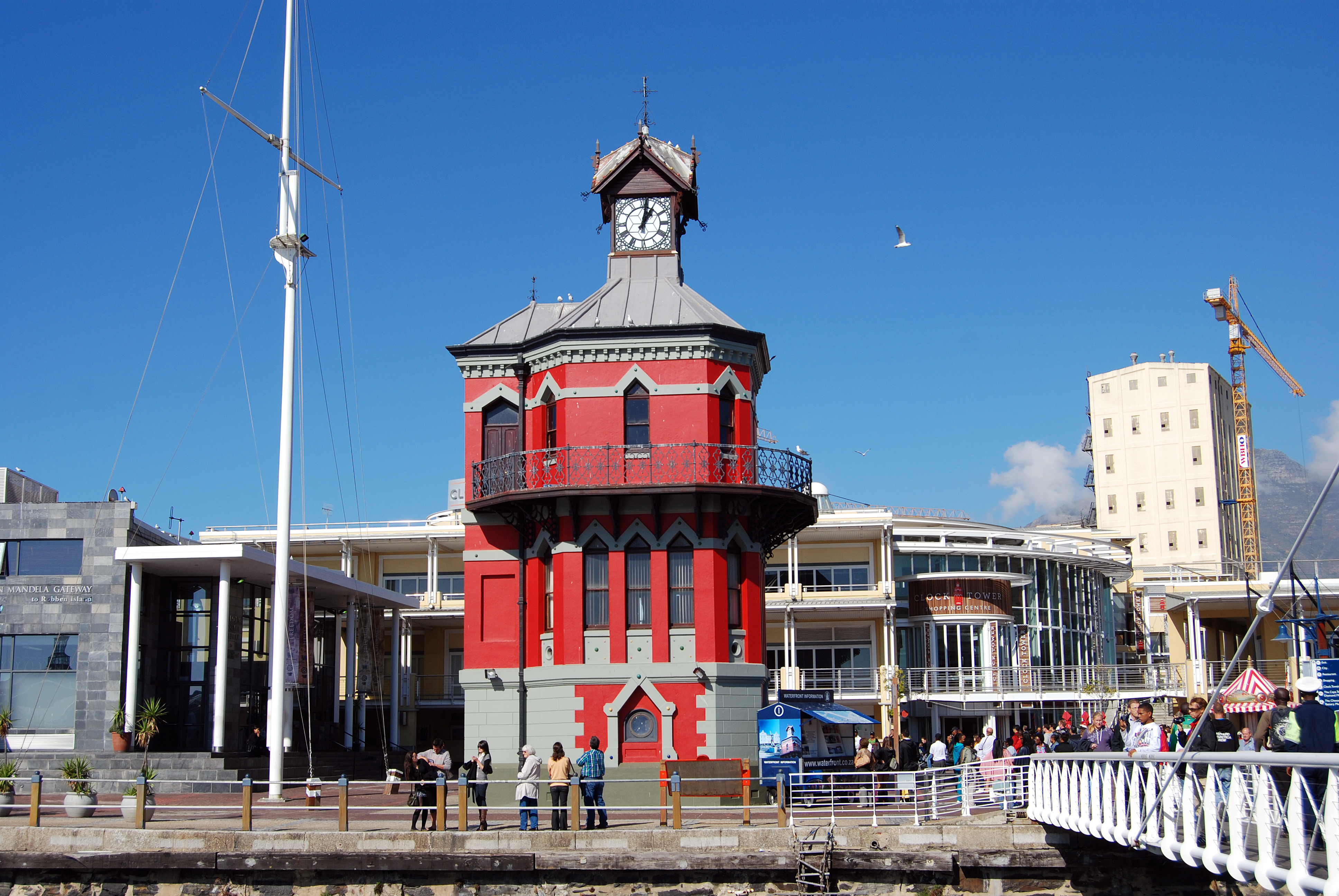 Clock Tower Square / The Victorian Gothic-style Clock Tower is an icon of the old docks. The Waterfront Clock Tower acted as the original Port Captain's office and was completed in 1882.